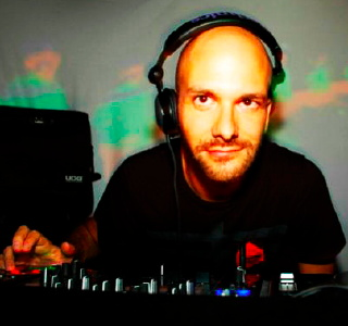 Italian DJ and record producer William Bottin